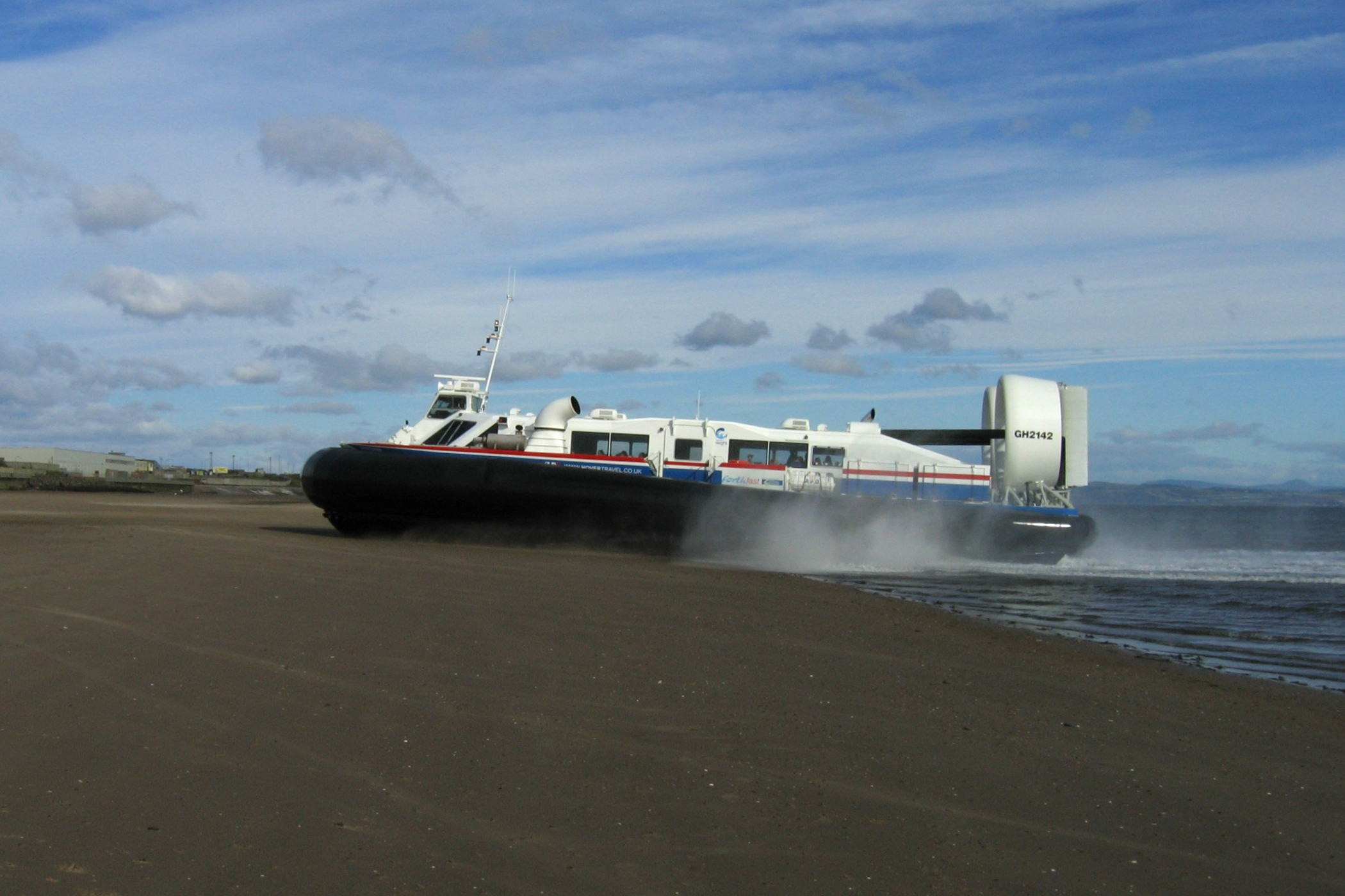 The hovercraft Solent Express on a trial run between Edinburgh and Kirkaldy going onto the beach at Portobello.